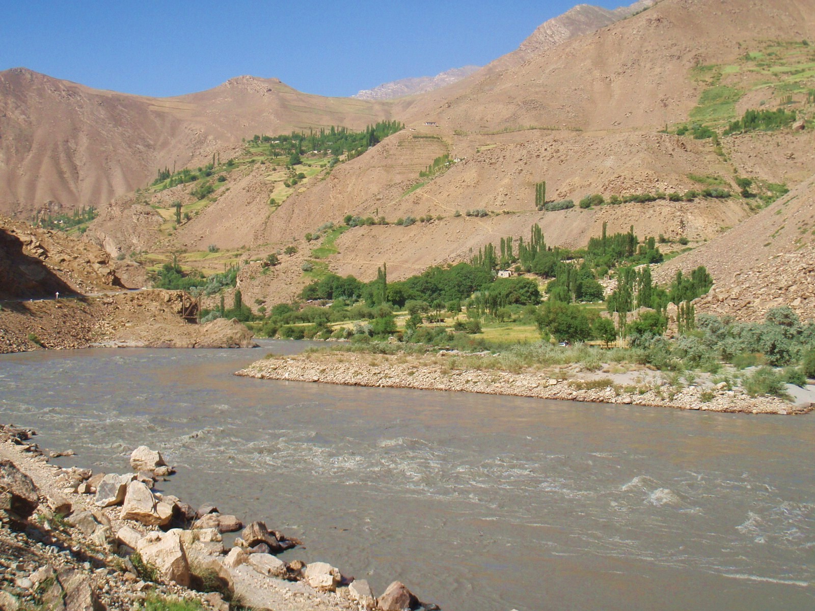 Afghanistan from across the river